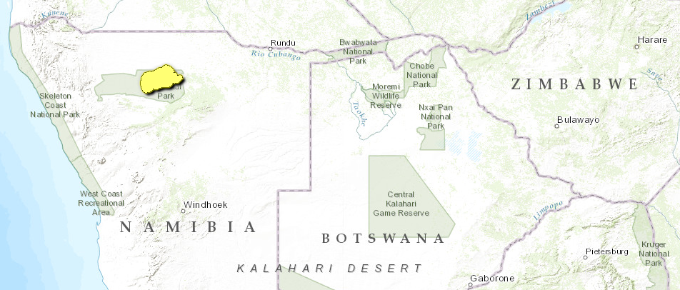 Map of ecoregion AT0902 - Etosha Pan halophytics